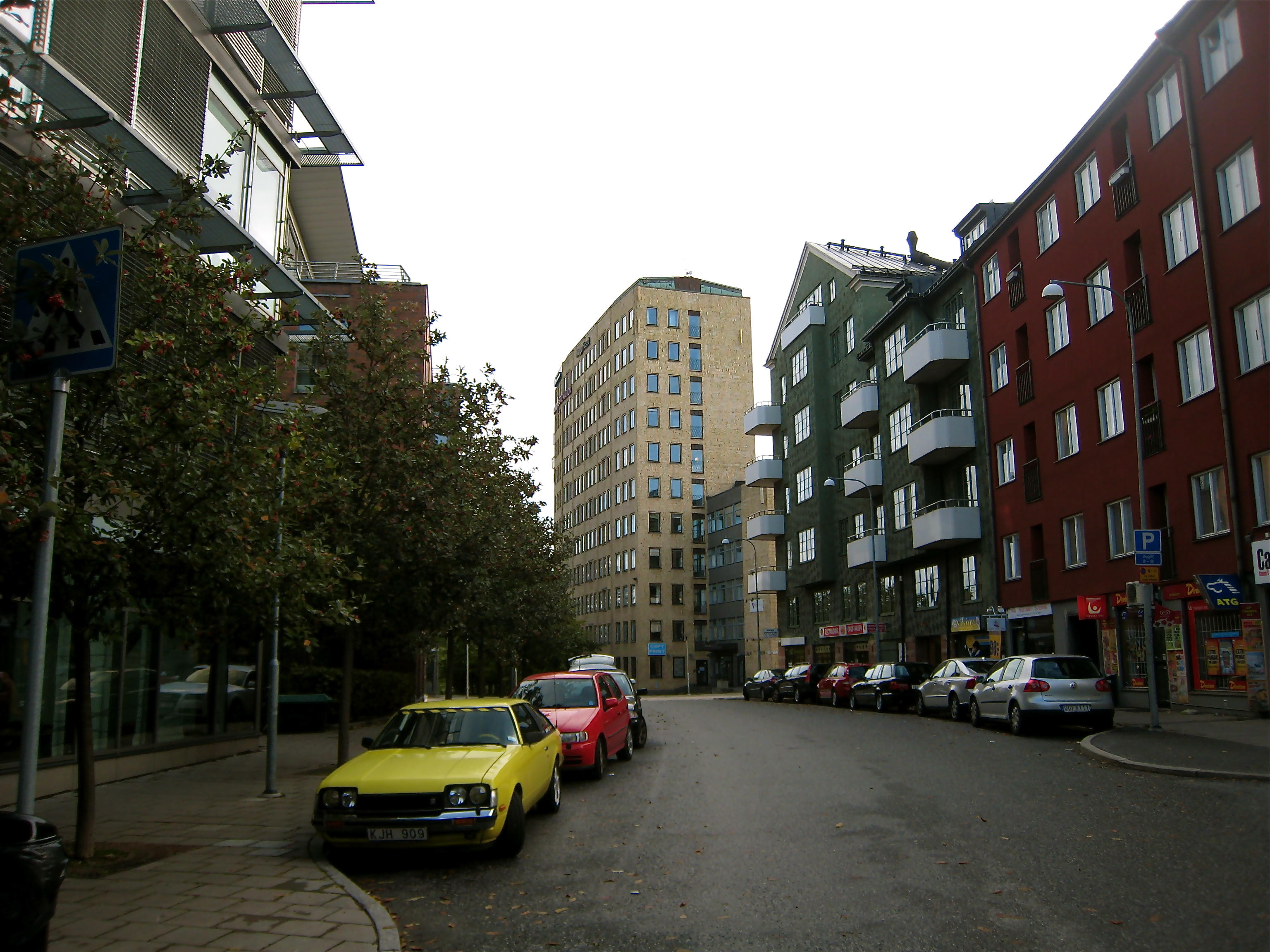 Råsundavägen